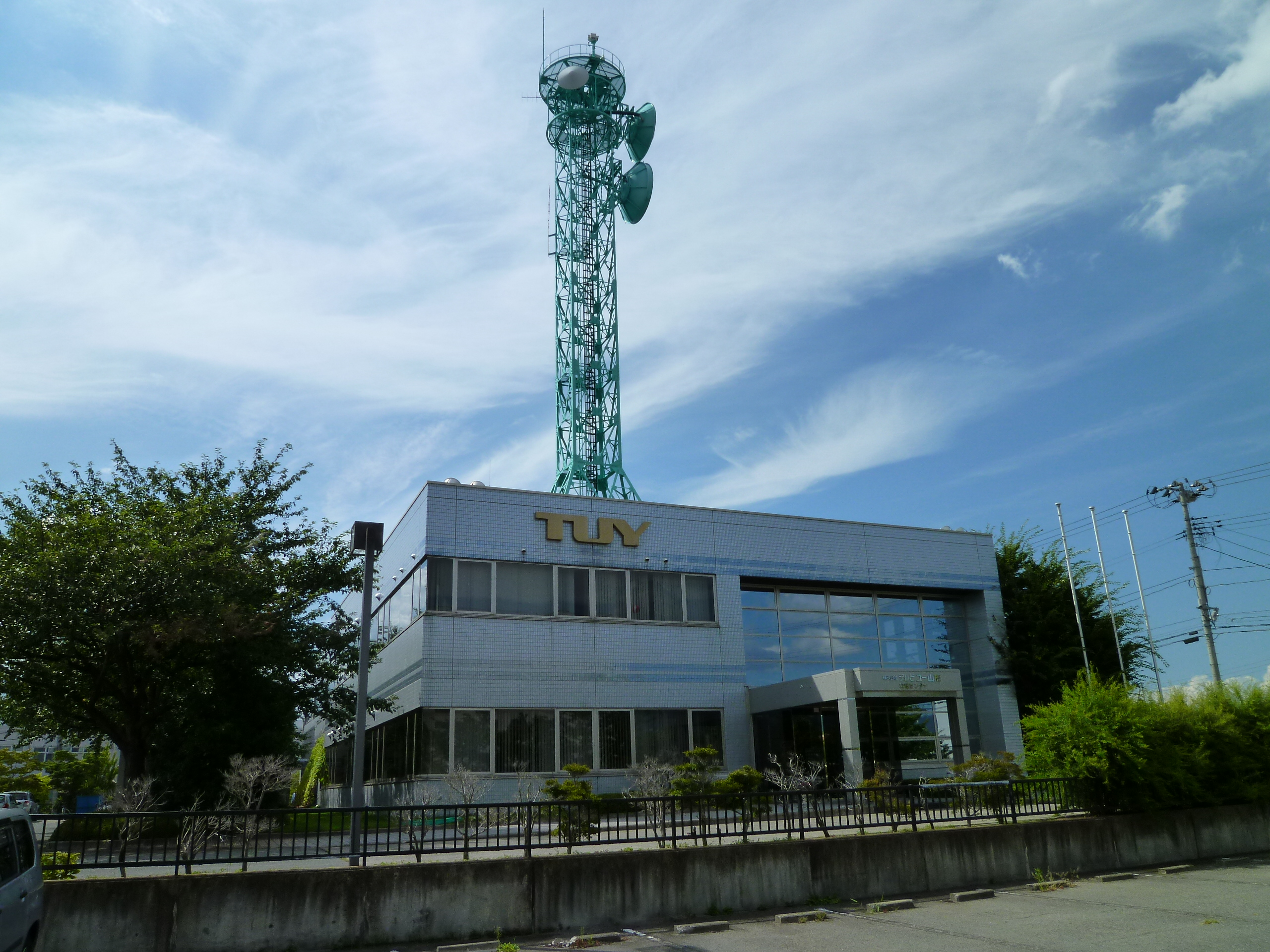 TV-U Yamagata Inc.